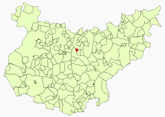 Cristina